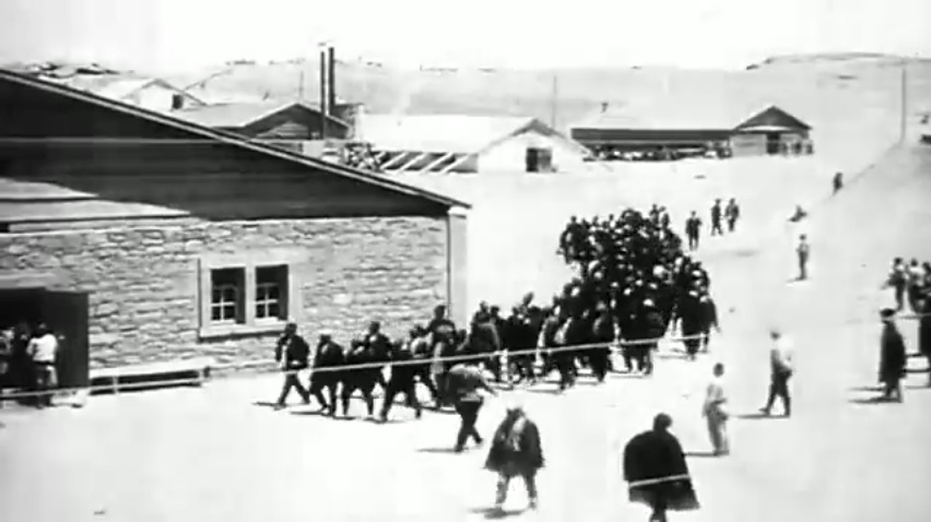 Prisoner-of-war camp in Nargen island